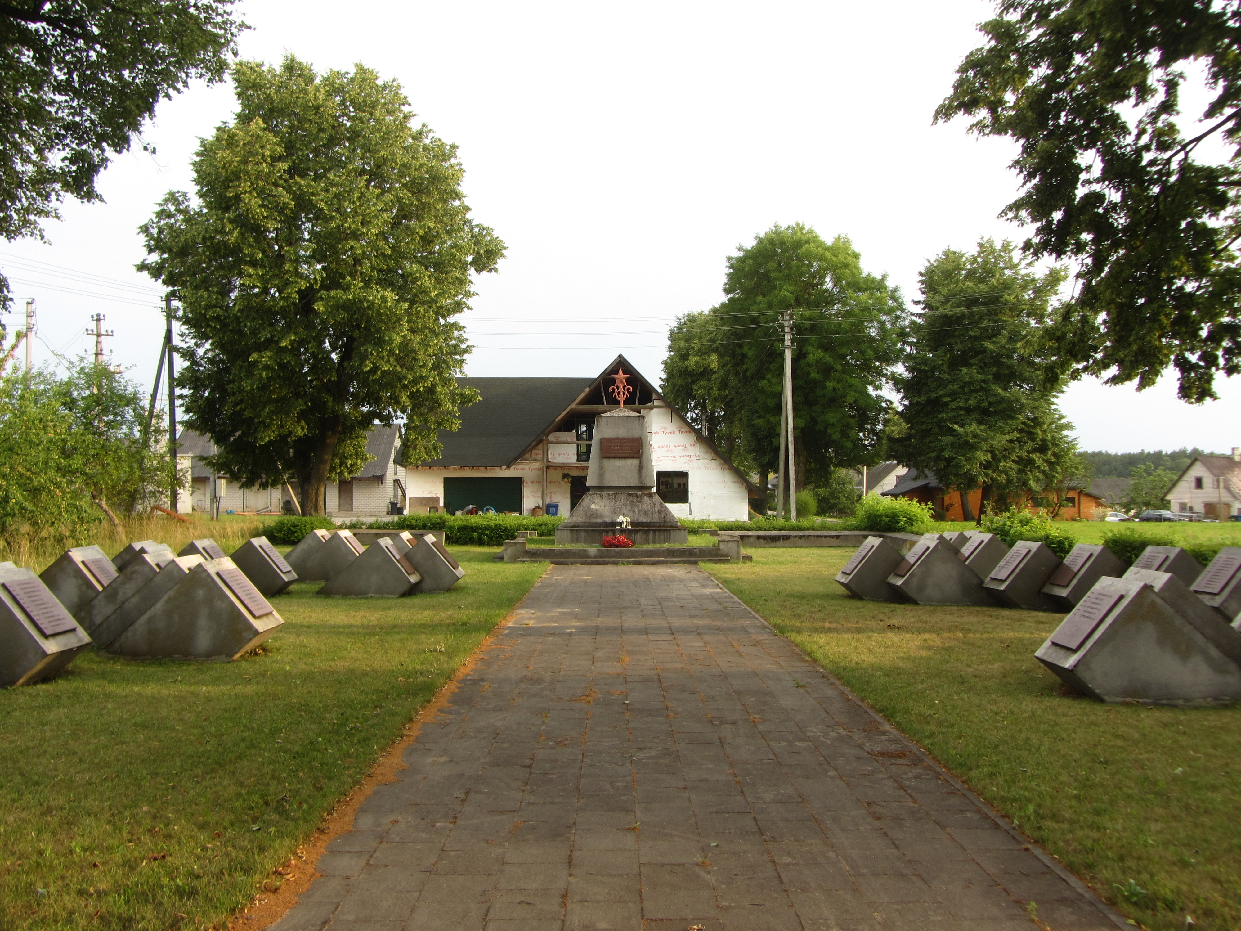 Leipalingis, Lithuania